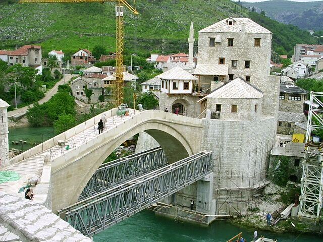 City of Mostar, southern Bosnia and Herzegovina